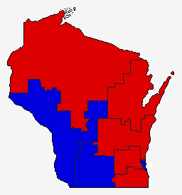 The 2014 district results for the United States House of Representatives elections in Wisconsin